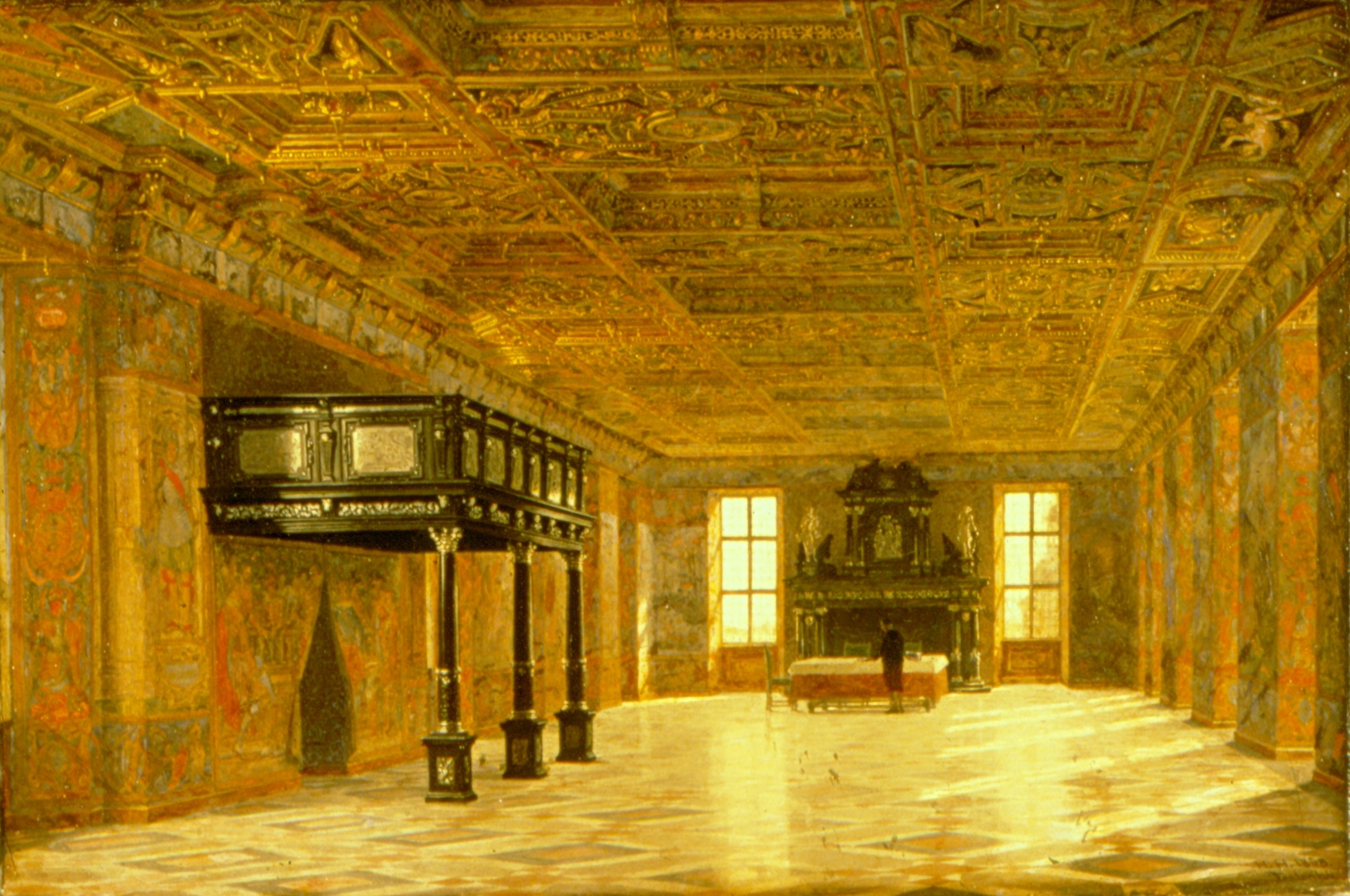 Frederiksborg Castle before the 1859 fire.